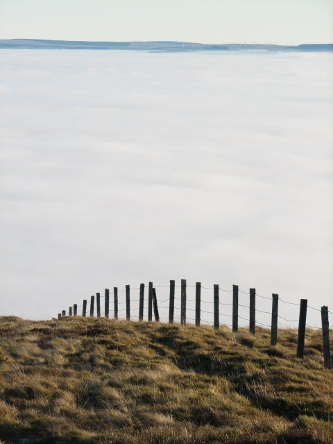 Caerketton fence posts Fence posts on Caerketton's east top, marching downhill into the cloud. Soutra Hill windfarm just visible in the distance.